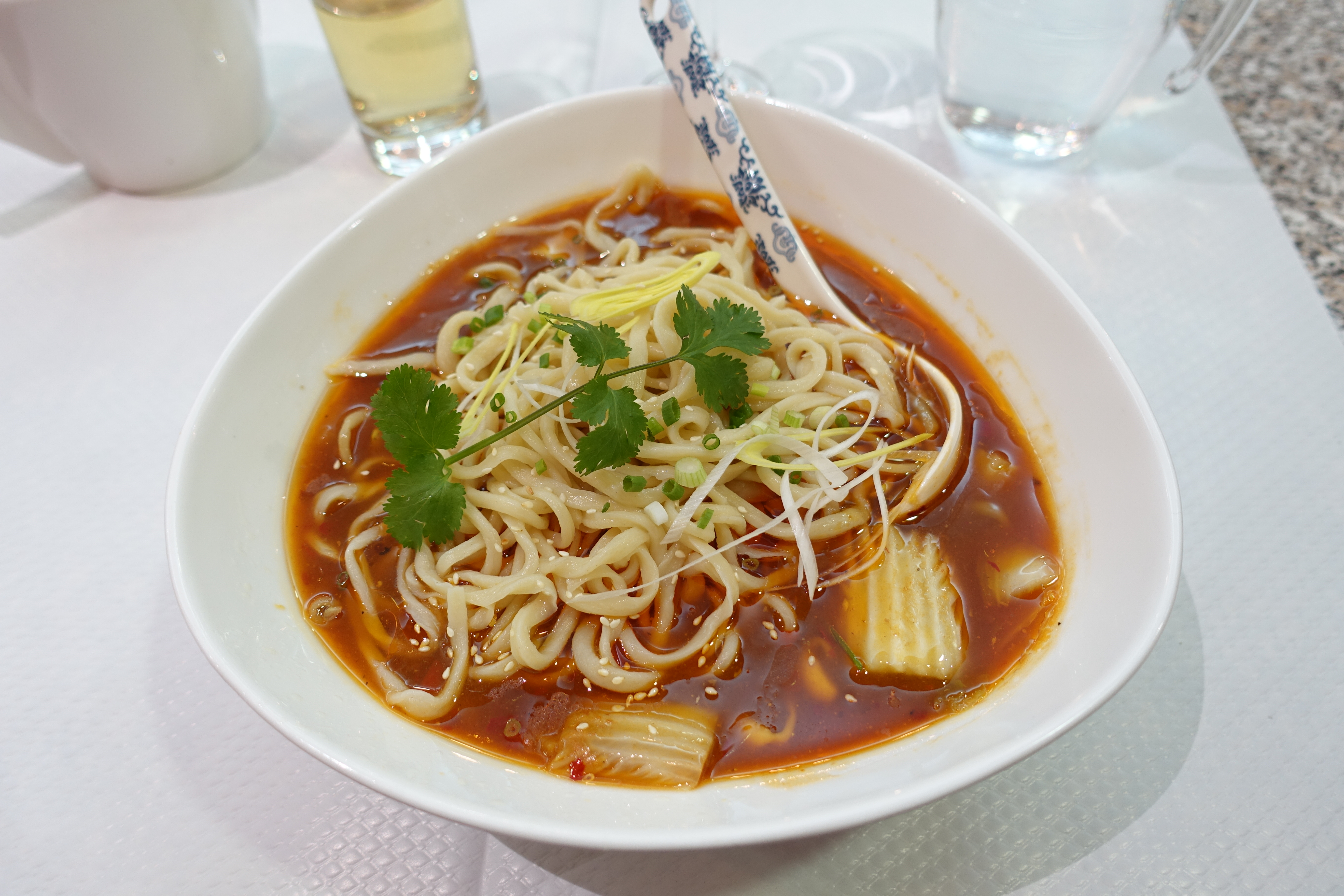 Spicy noodle soup with beef @ Le Paradis des Pâtes @ Paris